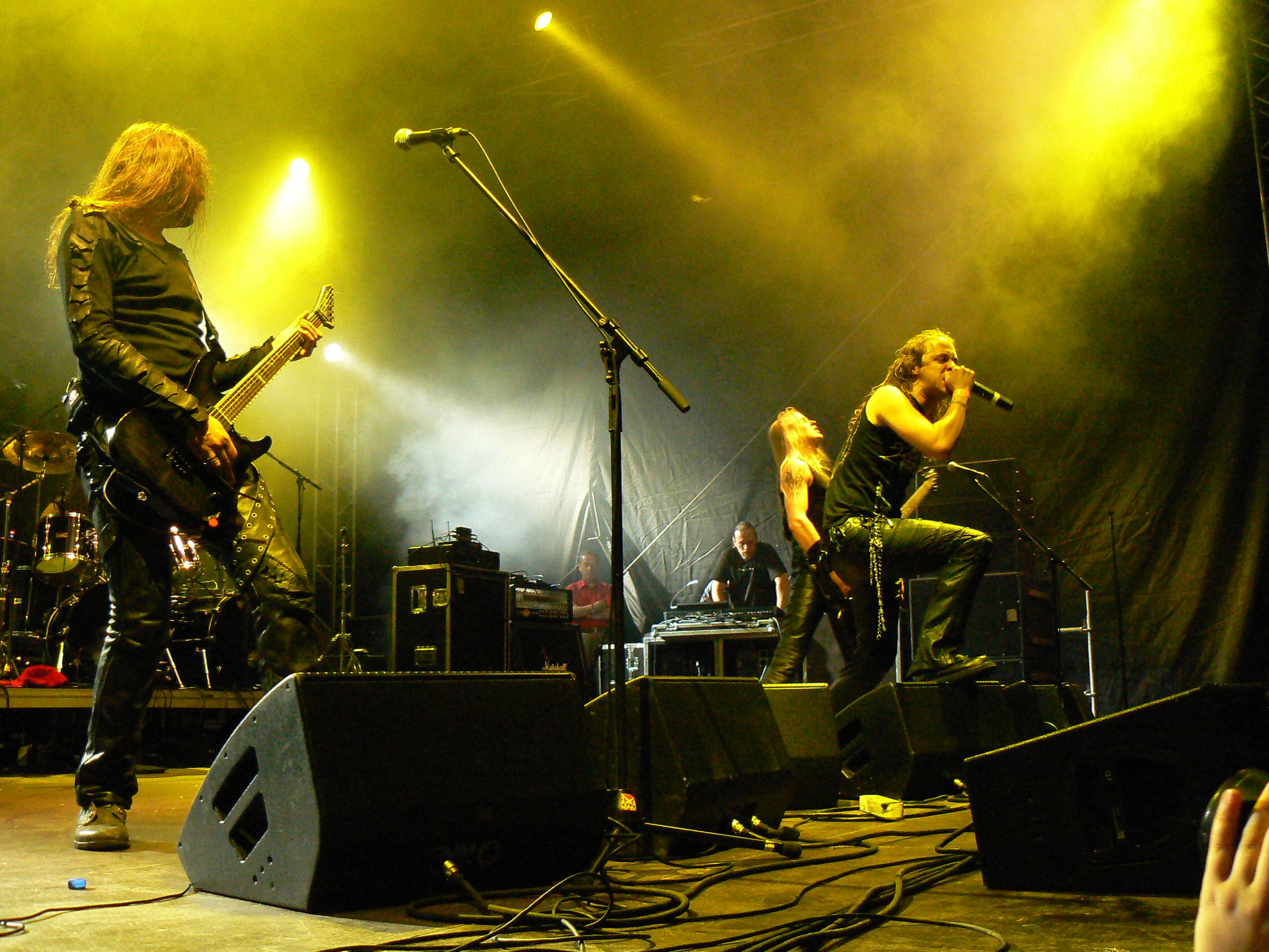 Keep of Kalessin at Devilstone Open Air festival in Anykščiai, Lithuania on July 17-19, 2009.